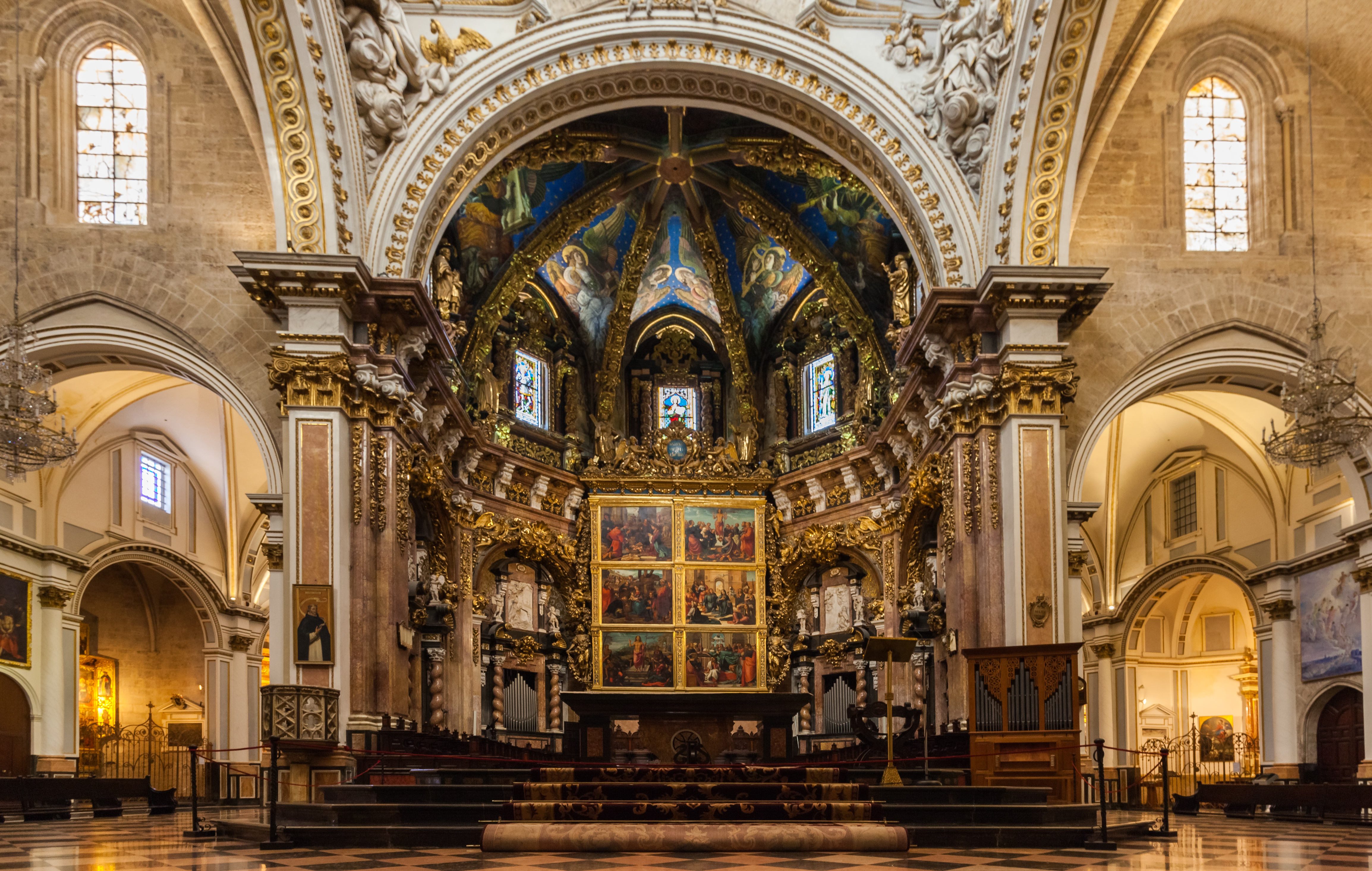 Main Chapel, Valencia Cathedral, Valencia, Spain